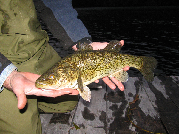 Percichthys trucha collected in Río Manso, cuenca del río Puelo, Chile.